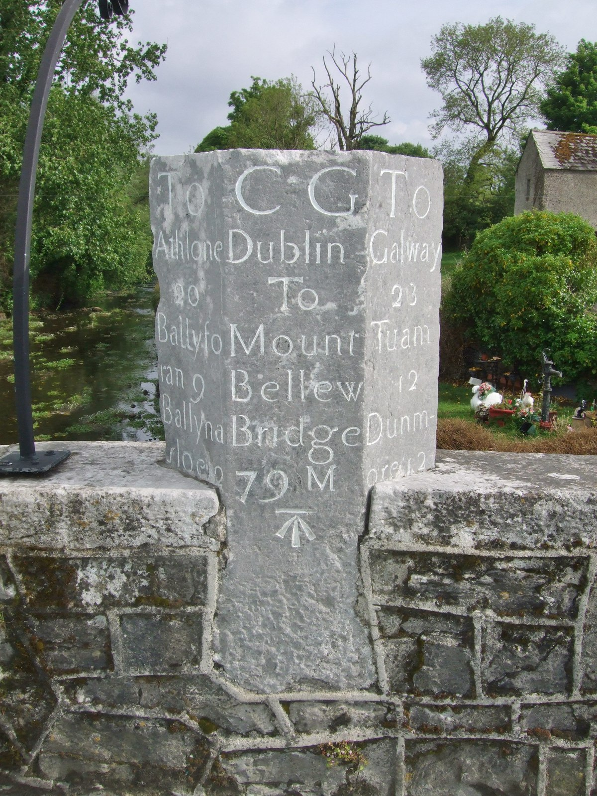 Milestone, Mountbellow